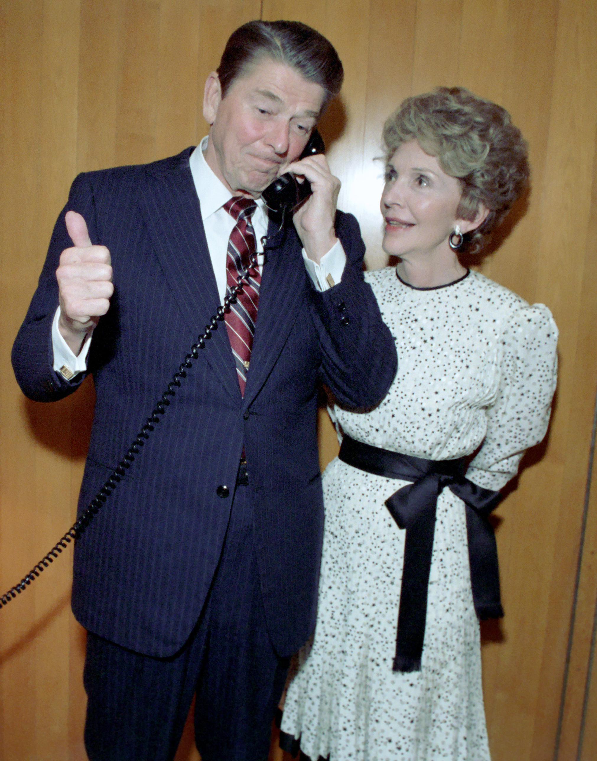 President Reagan and Nancy Reagan receiving a concession phone call from Walter Mondale, Los Angeles, California. 11/6/84.